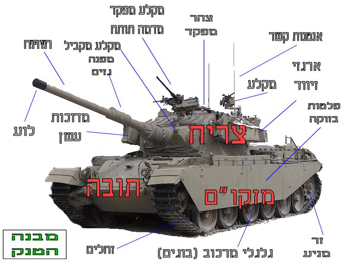 Tank structure (in Hebrew), based on Centurion tank photo taken by Nachman, revisited version Author: MathKnight , Hebrew Wikipedia